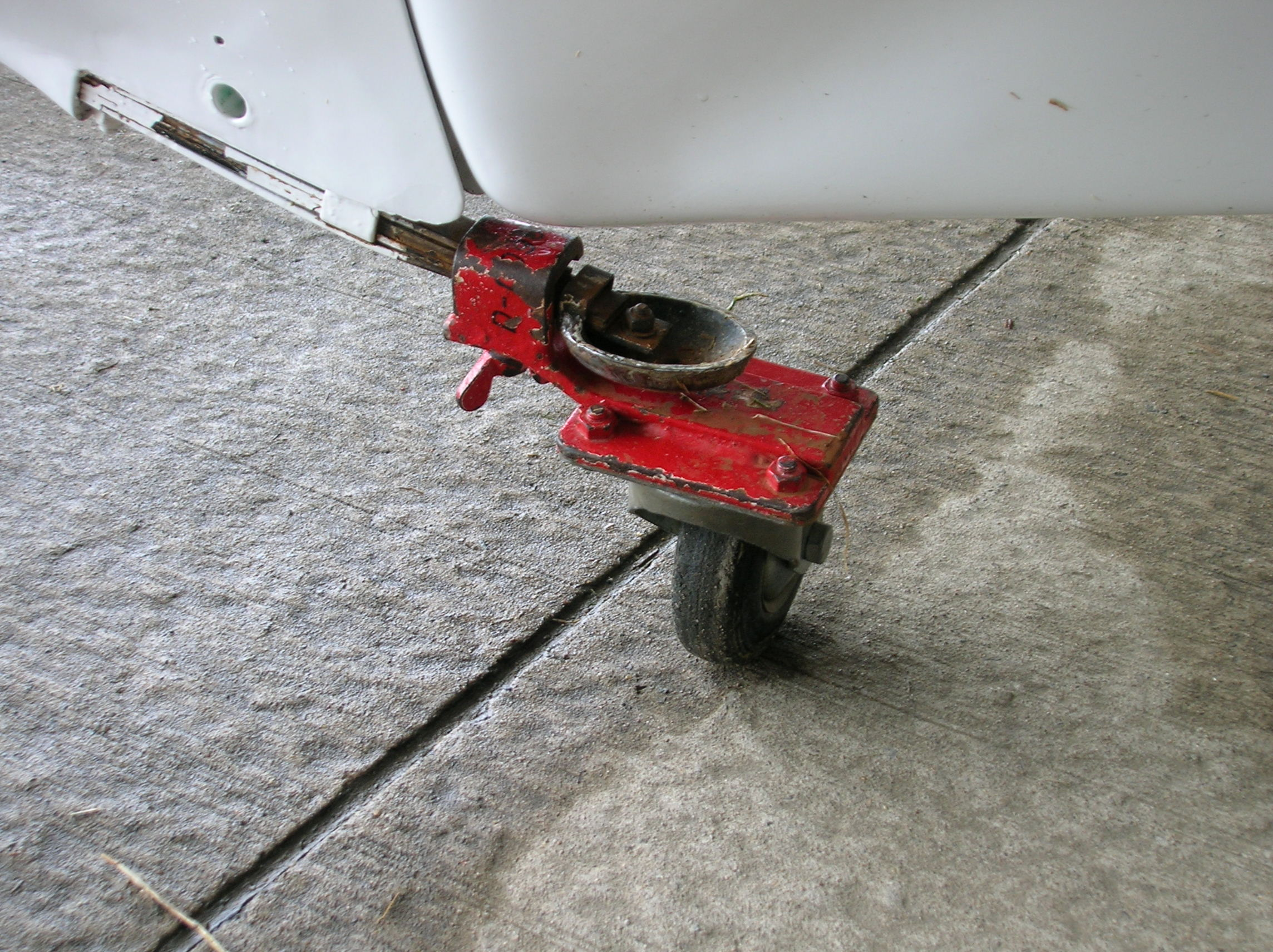 Tail dolly of a Schleicher Ka 6